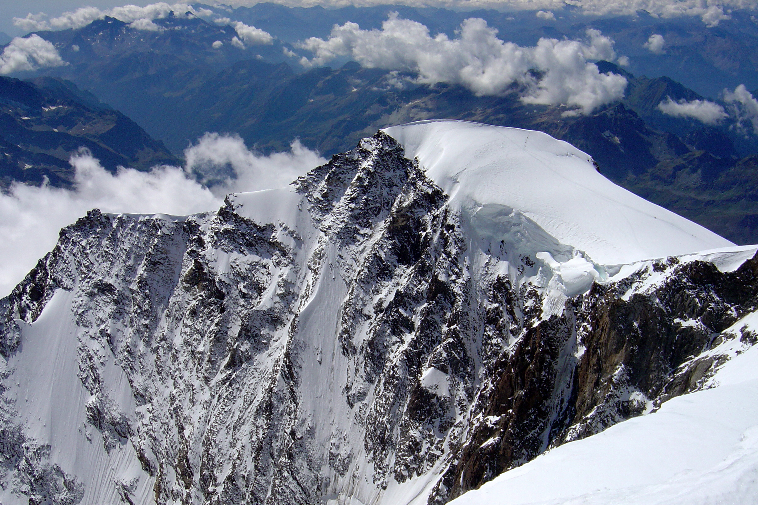 Piramide Vincent viewed from Parrotspitze